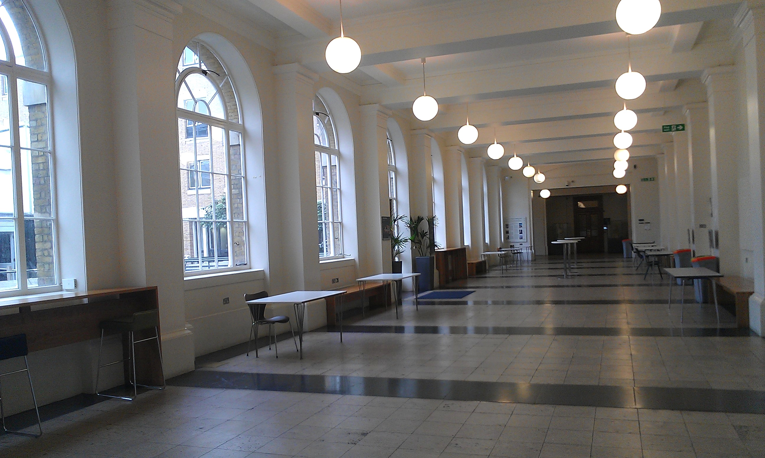 The interior of the South Cloisters in the UCL Main Building, part of University College London in Bloomsbury, London Borough of Camden.